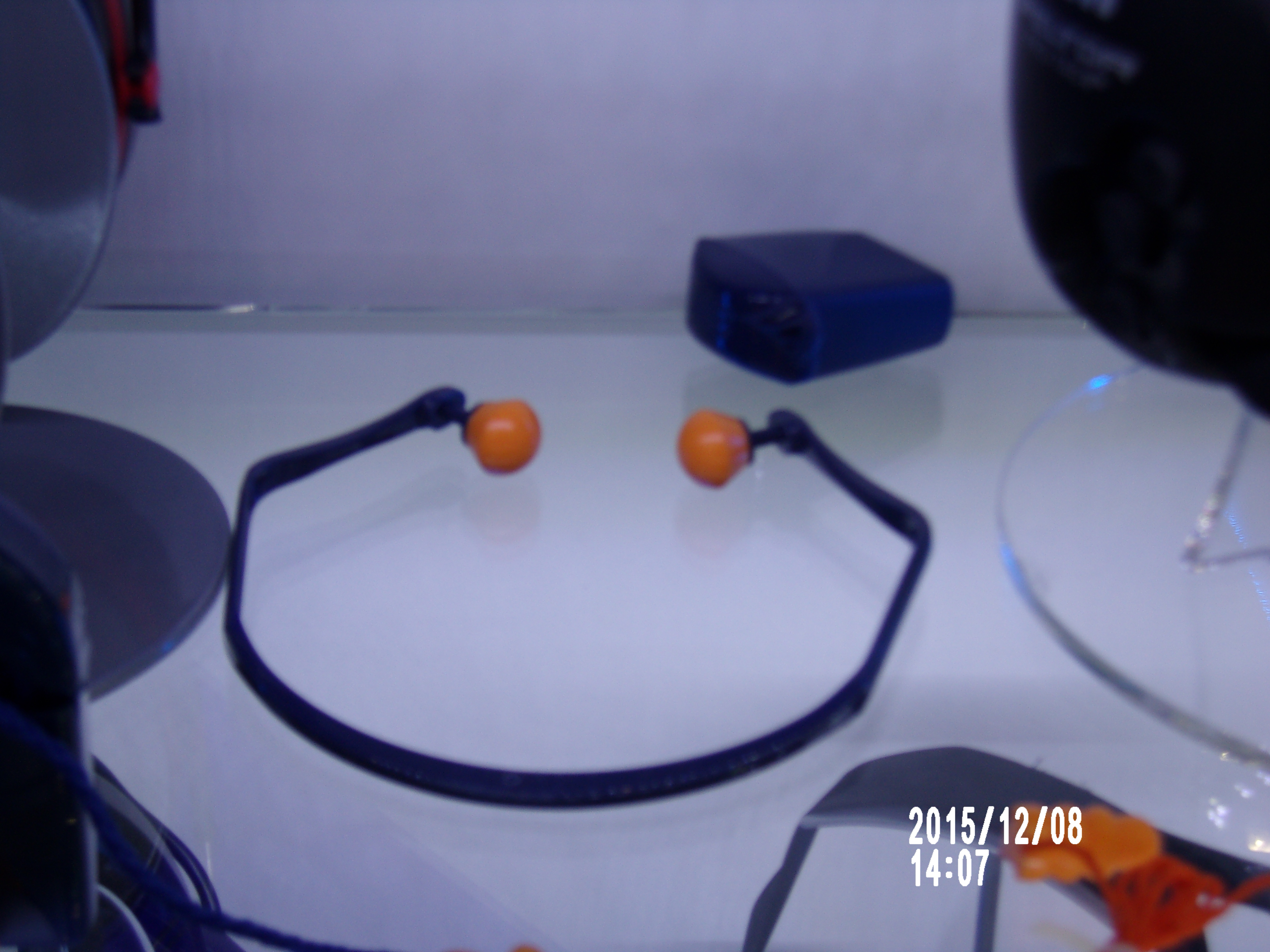 Personal protective equipment. Earplugs on the bow, used to protect the ears from the noise in the workplace.